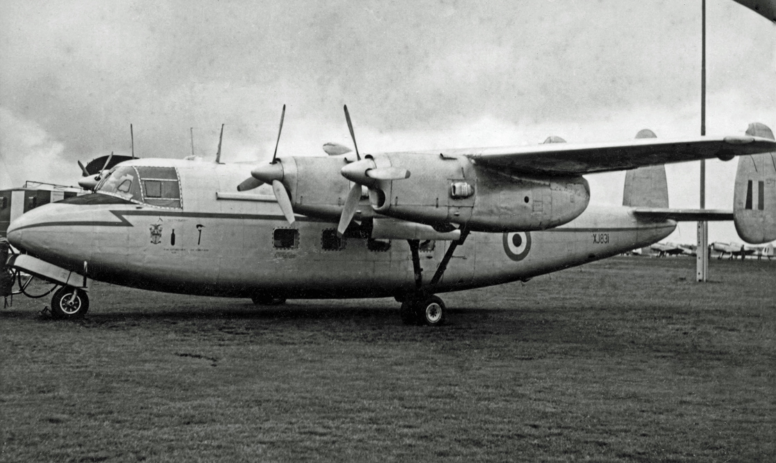 HPR.1 Marathon XJ831 of the Royal Aircraft Establishment at Blackbushe Airport, Hants, in 1956